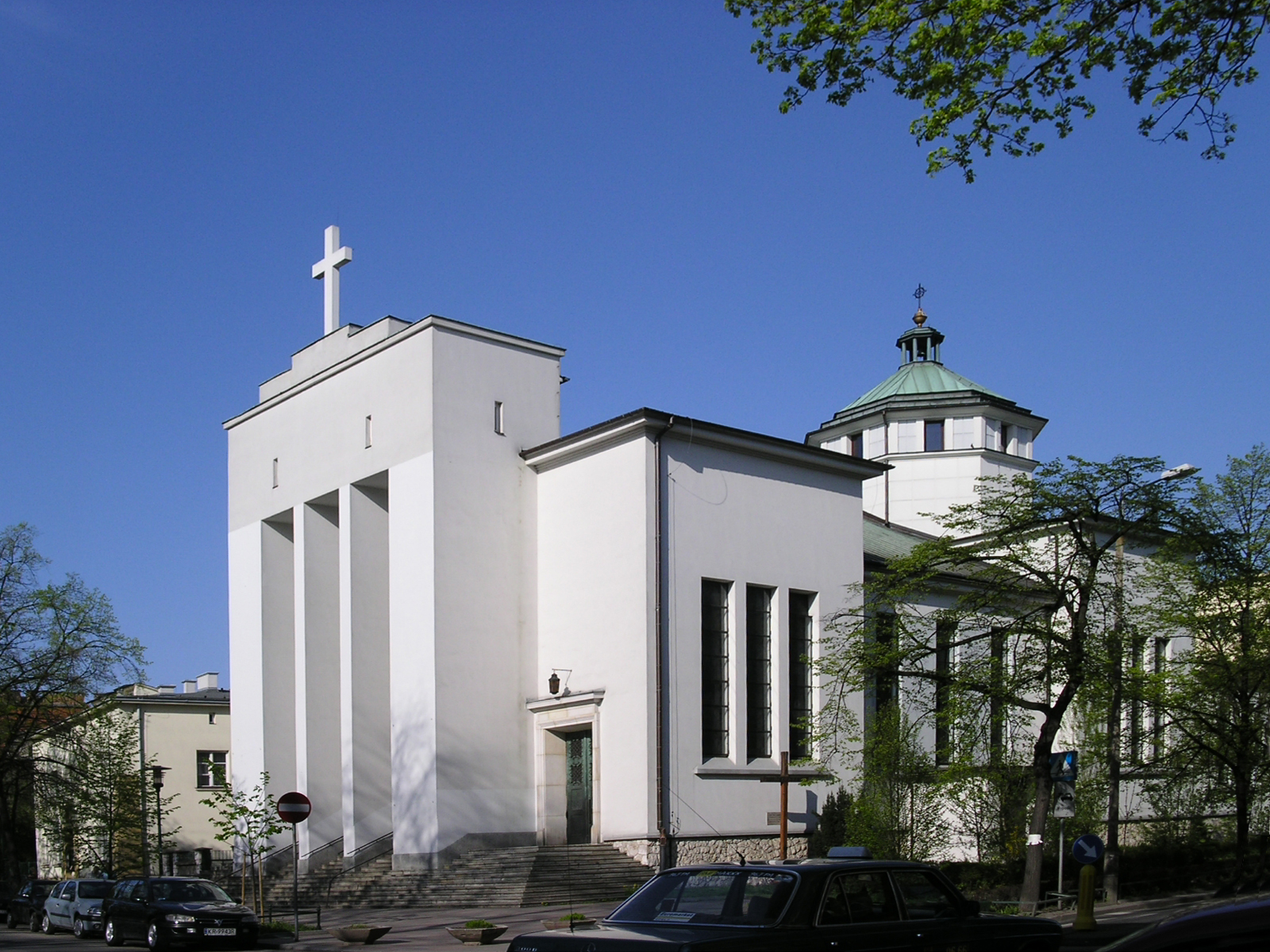 St Stephen Church in Cracow